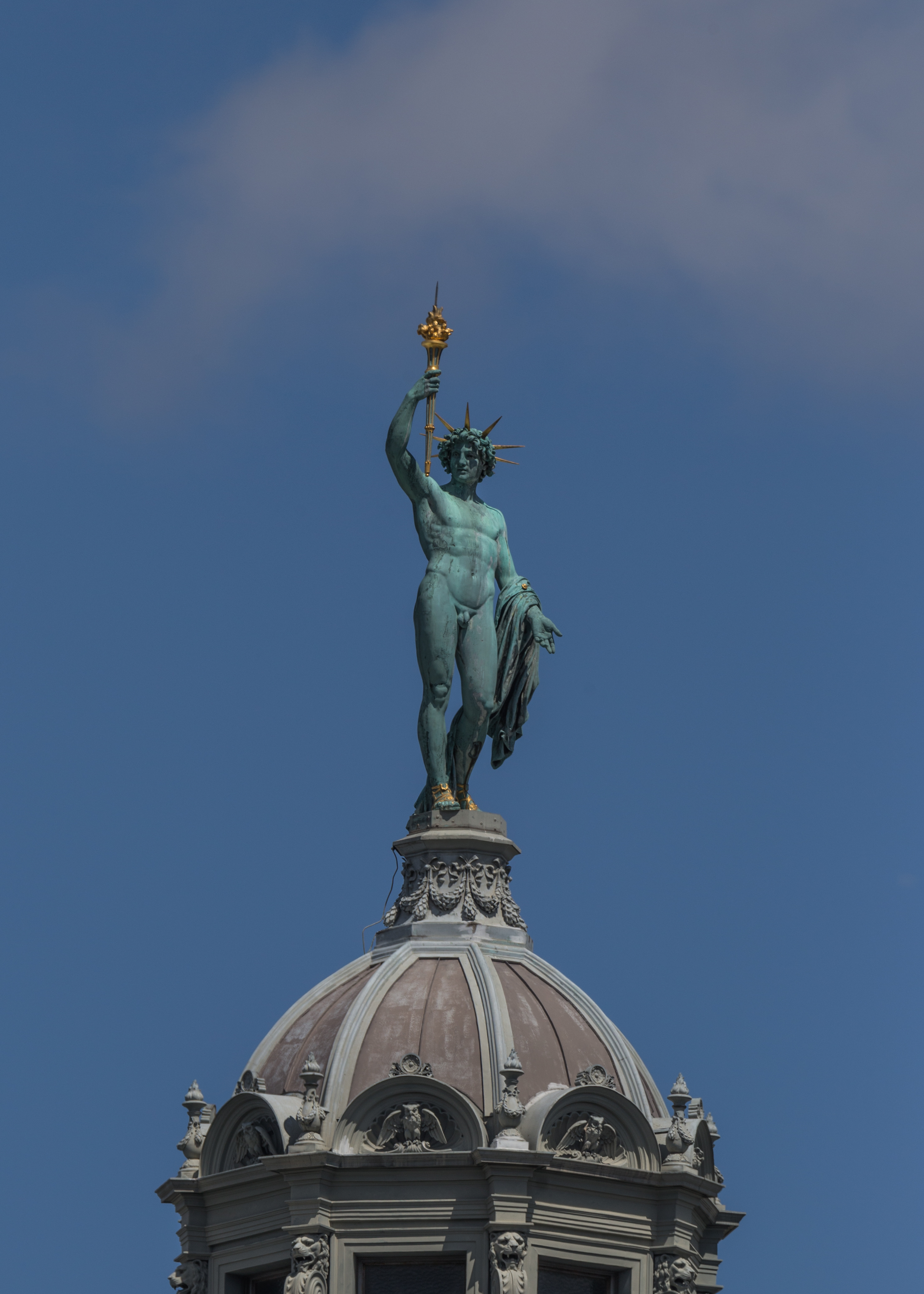 Helios, Main figure (Johannes Benk) at the Naturhistorisches Museum, Vienna